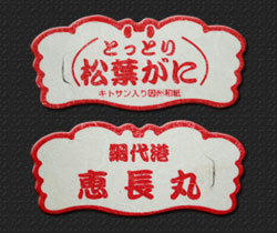 TAG for "Matsuba-gani"